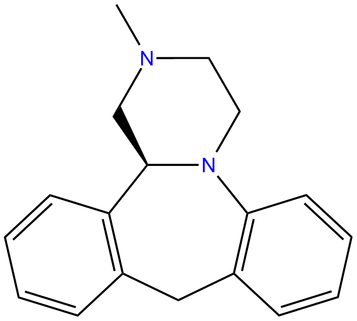 (S)-mianserin